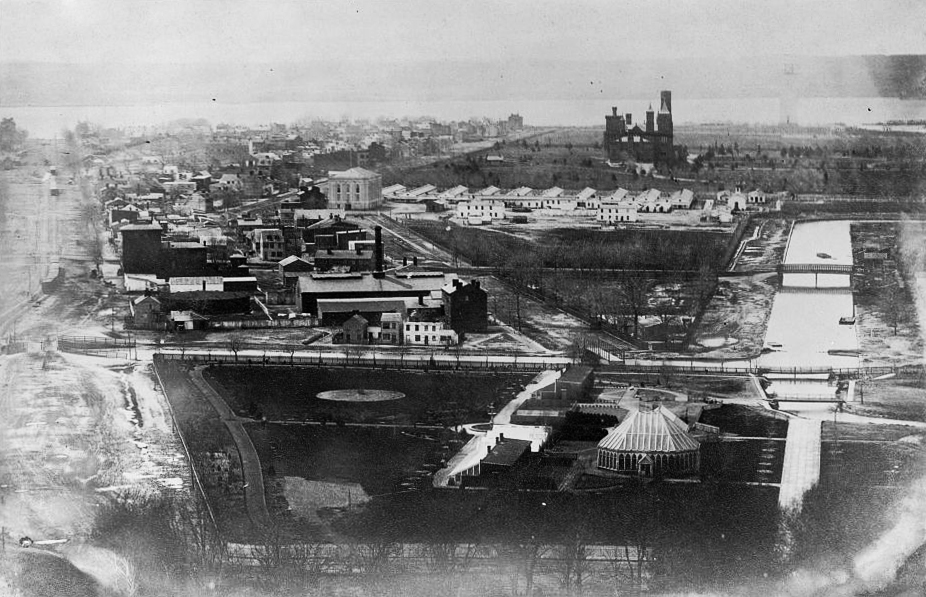 Looking west-southwest at the National Mall in Washington, D.C., U.S., ca. 1863. To the left are Maryland Avenue SW and B Street SW (now renamed Independence Avenue SW). Maine Avenue SW, 3rd Street SW, 4-1/2 Street SW, and 6th Street SW to the center. Running across the image in the middle view is the Washington Canal. The tent-like structure in lower foreground is the Botanic Garden. The building with the smokestack is the Gas Works. The squareish, two-and-a-half-story building is the Washington Armory, and the Armory Square Hospital buildings extend onto the mall from left to right. The Smithsonian Castle is visible in the background, and beyond it is the unfinished Washington Monument and the Potomac River.